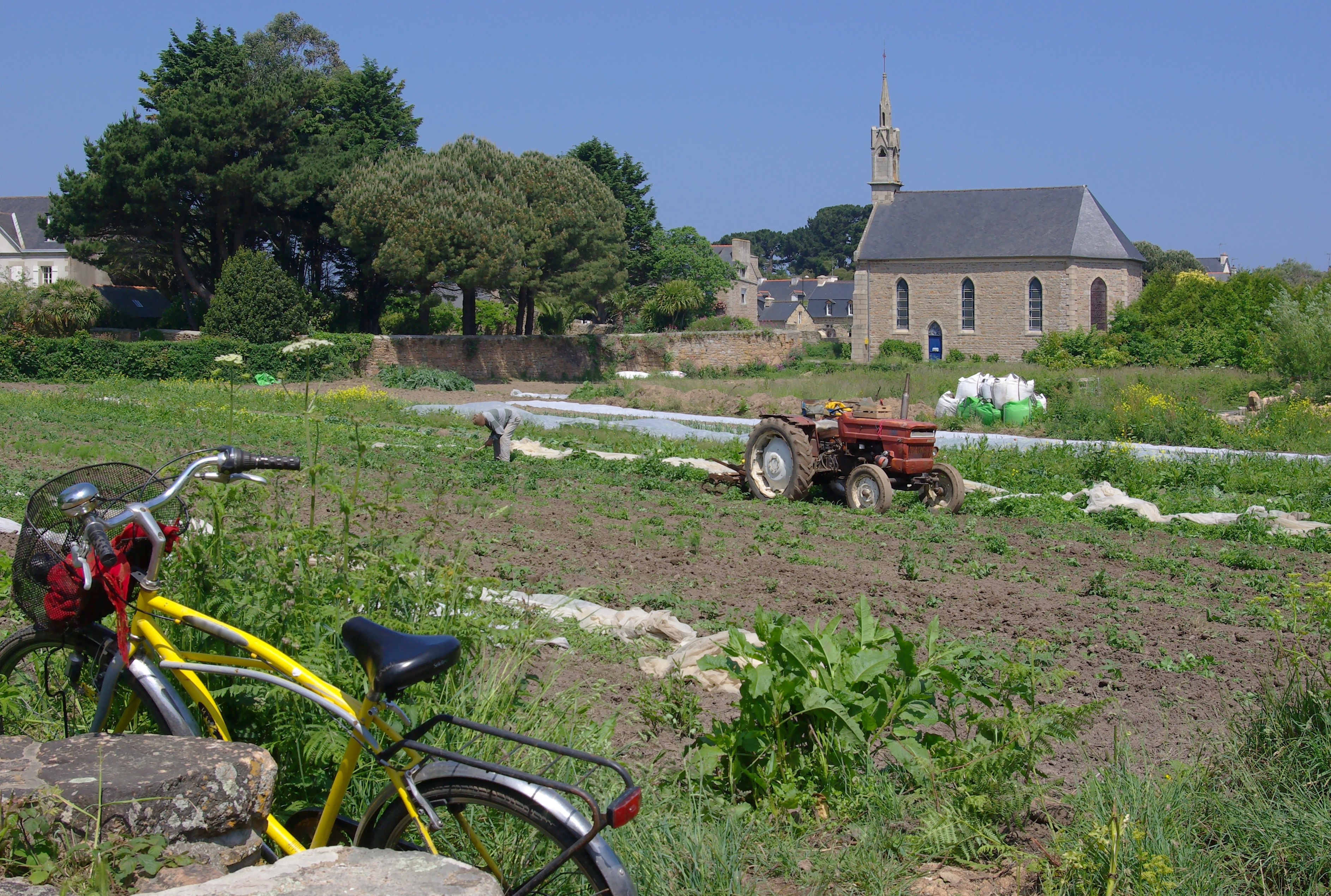 Garden near the Kéranroux chapel, Île de Bréhat, Côtes-d'Armor, France.